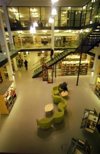 Interior of Ski bibliotek - the Public Library of Ski municipality in Southern Norway, opened in 2003. Own photography